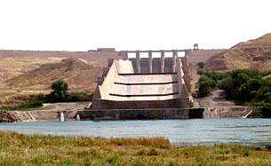 Original caption states, "The Mosul dam holds back upwards of 12 billion cubic meters of water for the arid western Ninewah Province, while creating hydroelectric power for the 1.7 million residents of Mosul."